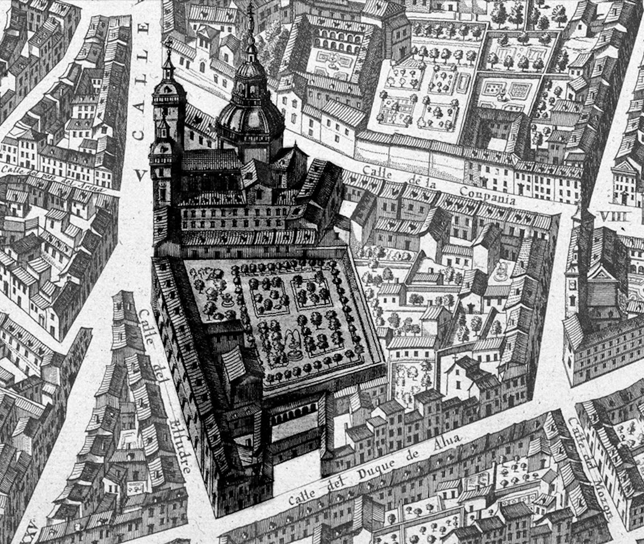 Detail in the plane of Pedro Texeira of the Imperial College of the Society of Jesus or School of San Pedro and San Pablo of the Society of Jesus in the Court, annex to the collegiate church of San Isidro, in the street of Toledo (Madrid).